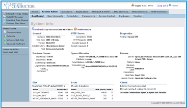 Conductor System Dashboard Conductor System Dashboard